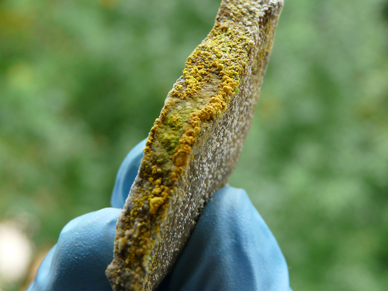 yellow Zippeite and green Johannite from Svornost Mine, Jachymov Mining District (Czech Rep.)